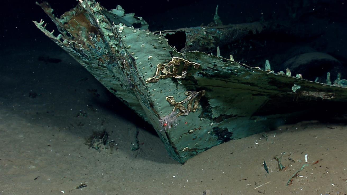 ABOUT THE COVER The bow of an early 19th-Century copper clad vessel found in ultra-deep waters of the Gulf of Mexico during oil and gas surveys. At the request of BOEM, NOAA‘s Office of Ocean Exploration and Research subsequently investigated the site in 2012. While most of the ship's wood has long since disintegrated, copper that sheathed the hull beneath the waterline as a protection against marine-boring organisms remains, leaving a copper shell retaining the form of the ship. The copper has turned green due to oxidation and chemical processes over more than a century on the seafloor. Oxidized copper sheathing and possible draft marks are visible on the bow of the ship. (Photo Credit: NOAA Okeanos Explorer Program)